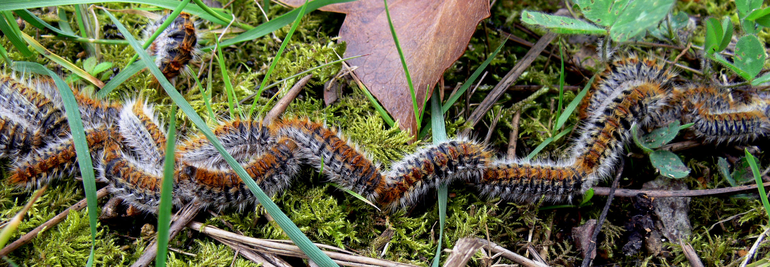 Photo made near the sea, in Auray (Britain, France)